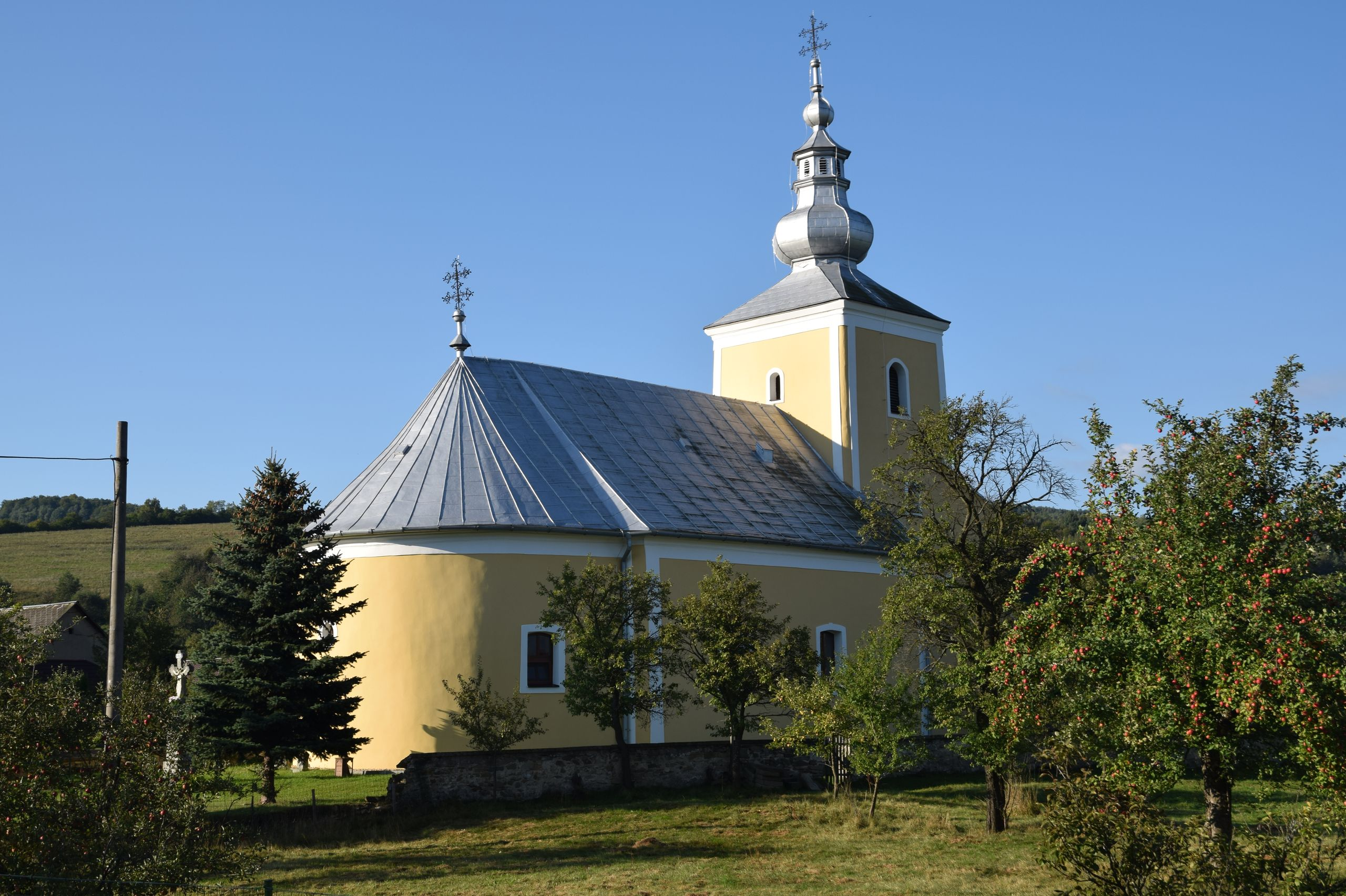 Lukov, catholic church at main road